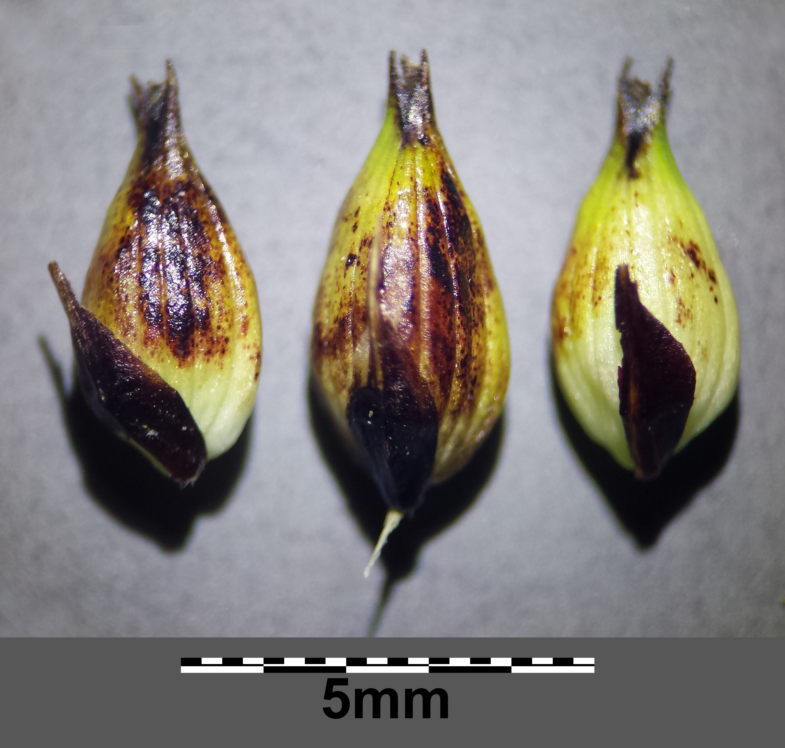 Utricle with glume Taxonym: Carex melanostachya ss Fischer et al. EfÖLS 2008 ISBN 978-3-85474-187-9 Location: Floridsdorf rail station, Vienna-Floridsdorf - ca. 160 m a.s.l. Habitat: area below a pipe